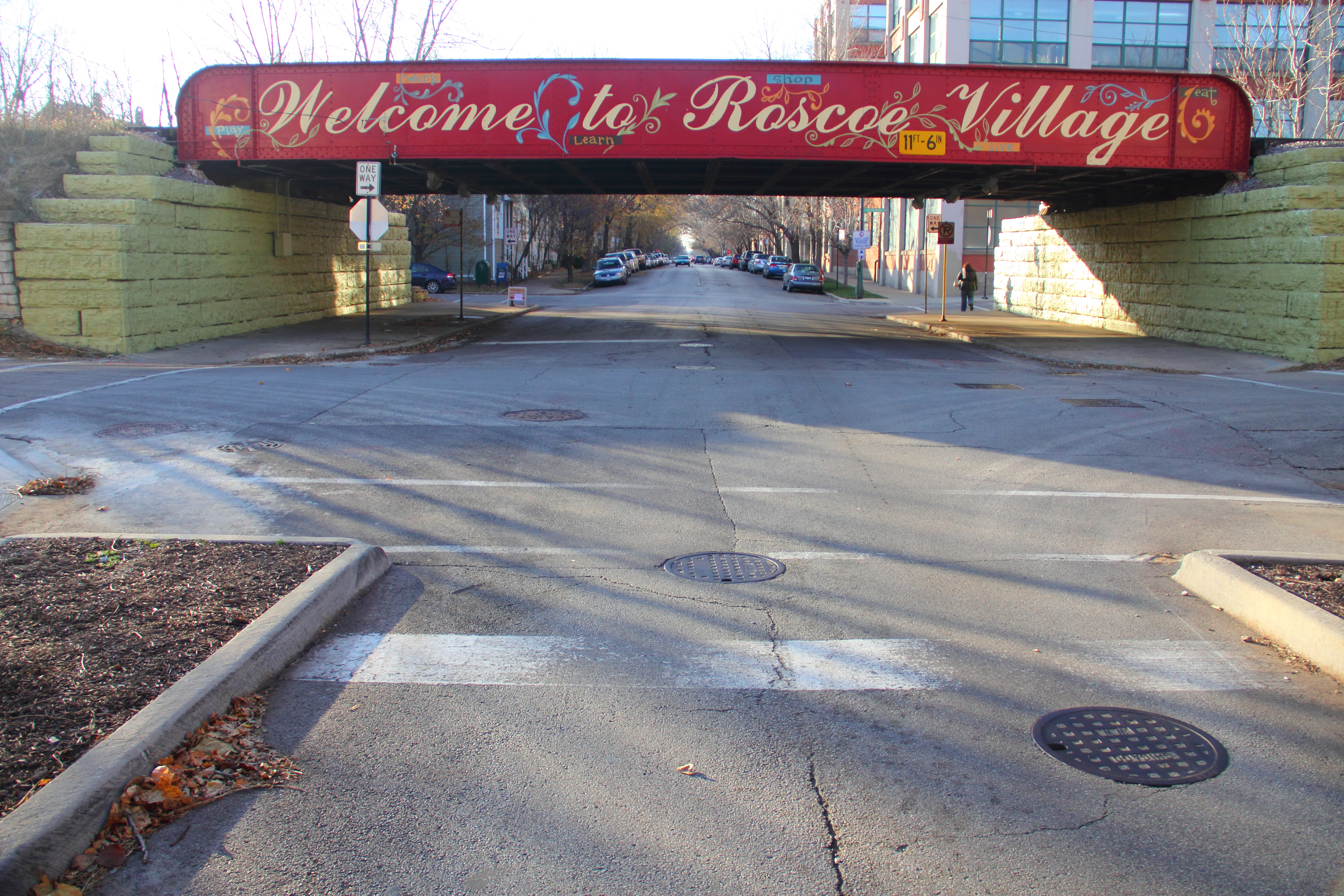 New "Welcome to Roscoe Village" Painted Sign on Roscoe at the Train Tracks It seems as if the old purple sign had been that way for decades, that's why I was surprised to see this background color-fixup today.